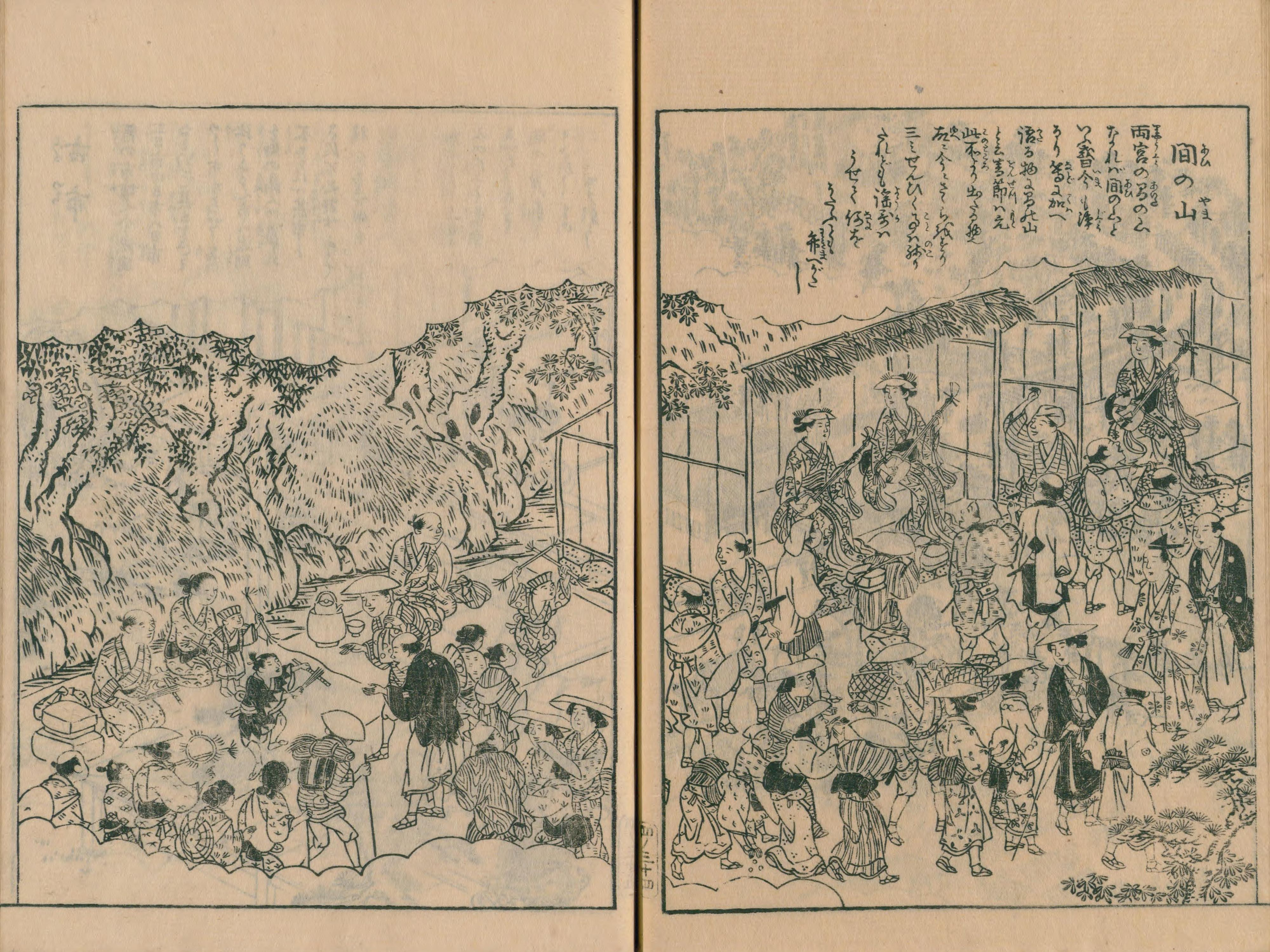 Ainoyama in Ise sangū Meisho zue vol. 4